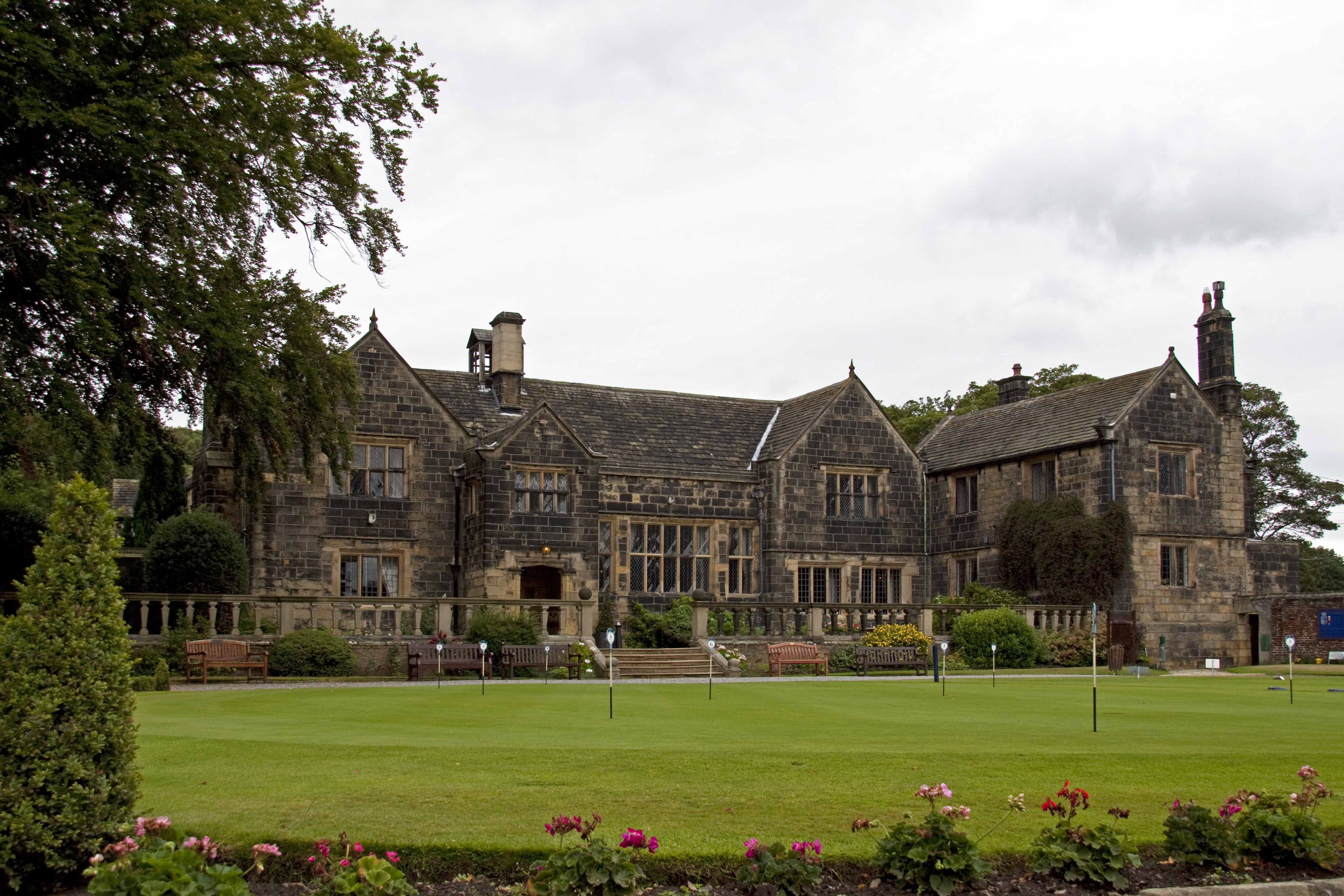 Built between the early 16th Century and the mid 17th century. The terrace was laid out in the mid 18th Century, by Capability Brown Unfortunately the Hall and grounds are now a golf club